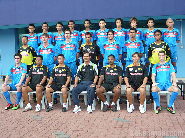 The Singapore Armed Forces F.C. squad in 2010. Since 20 January 2013, the football club has been known as Warriors F.C.